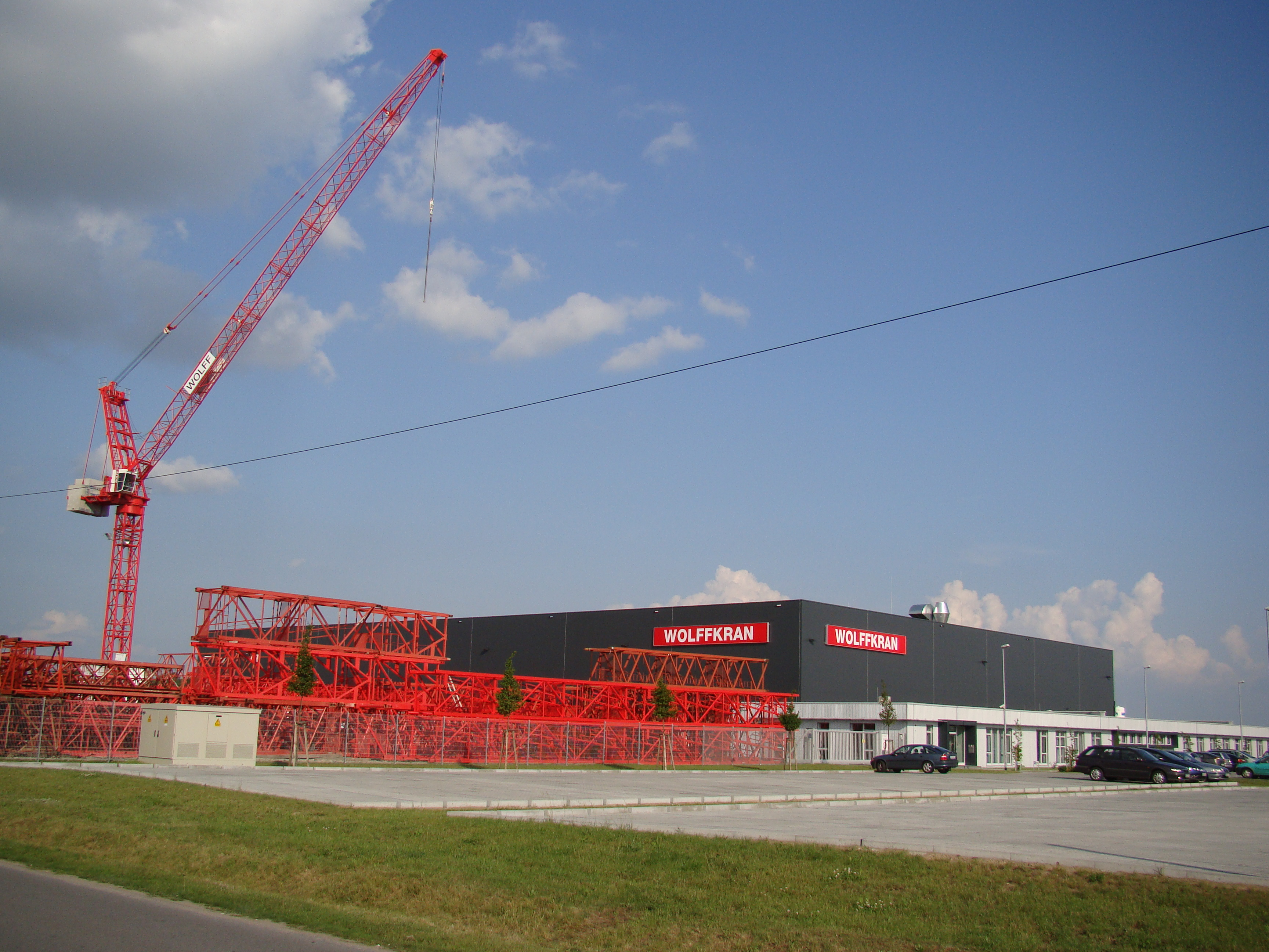 Wolffkran, manufacturer of tower cranes with the factury in Luckau, Germany